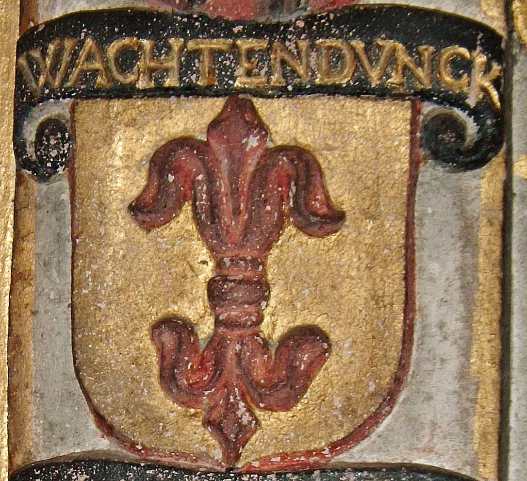 Wappen der Adelsfamilie von Wachtendonk, Ahnenwappen vom Epitaph des Joachim Friedrich von Münster-Meinhövel († 1671), Peterskirche Heidelberg